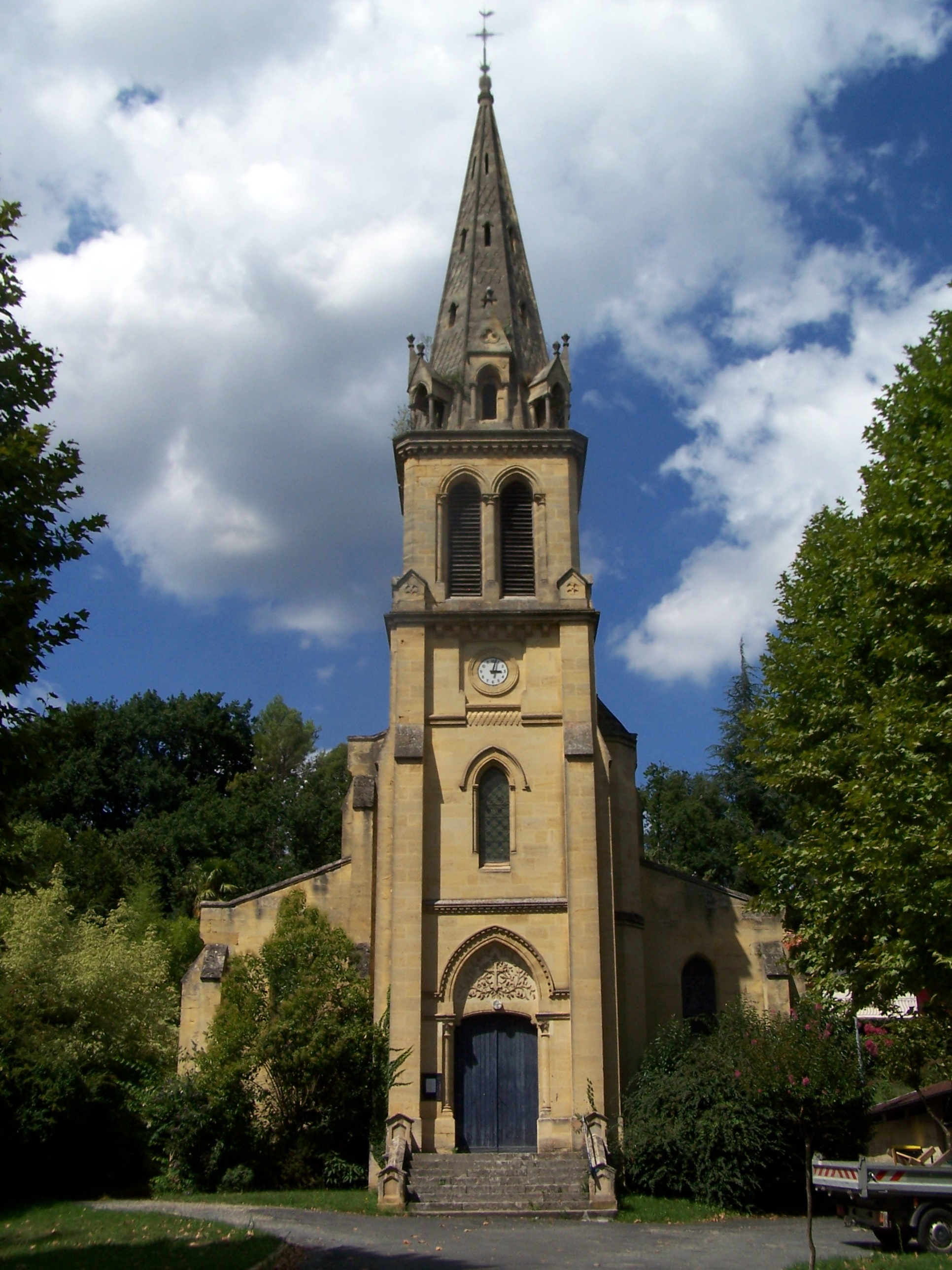 Saint-Stephen church of Le Tourne (Gironde, France)